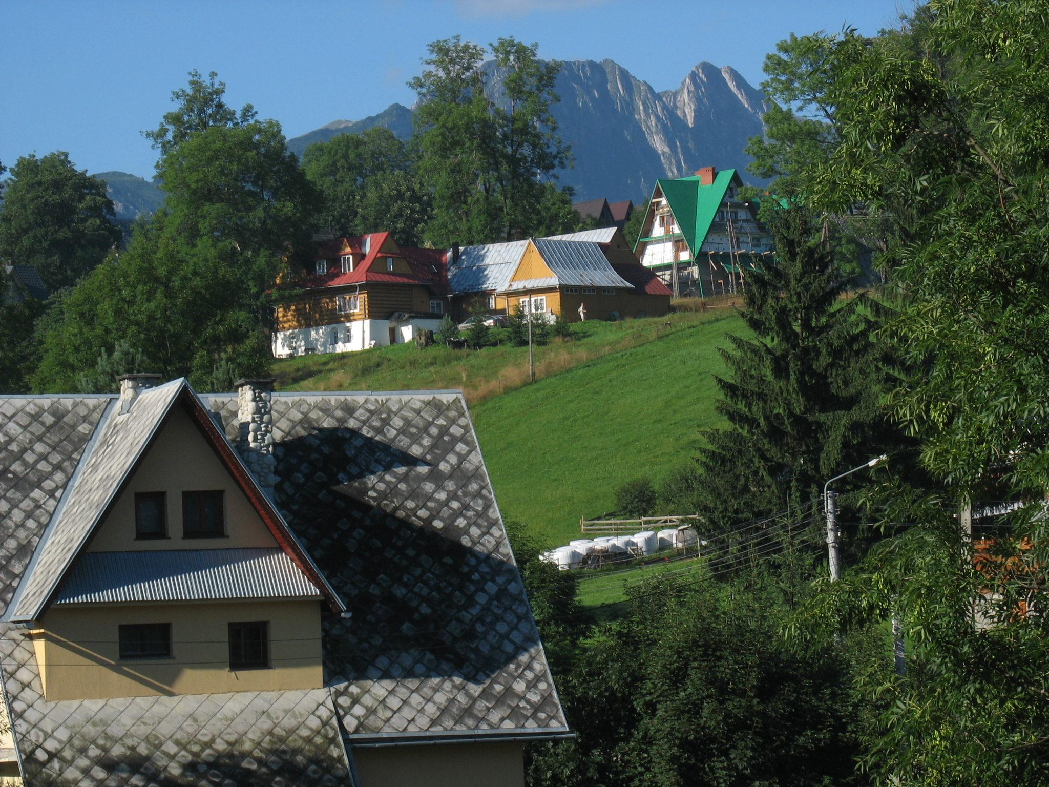 zakopane, giewont